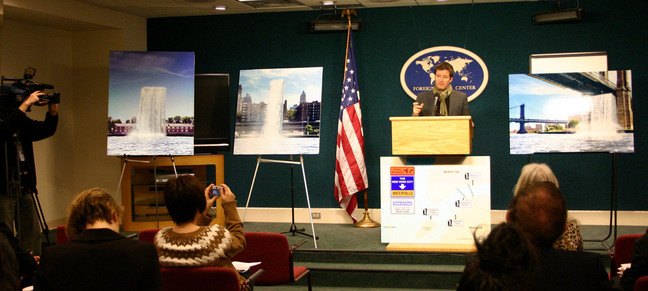 Danish artist Ólafur Elíasson speaking about his exhibition The Weather Project.